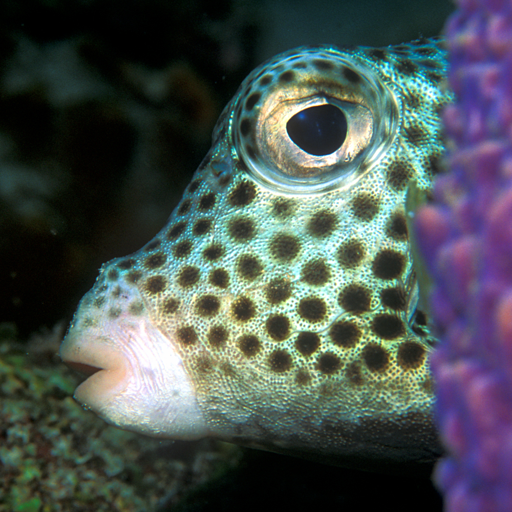 This little fellow (Lactophrys bicaudalis) didn't trust me very much, but was willing to peek out from behind a purple tube sponge long enough for me to snap this close-up. I love the metallic skin.Lactophrys bicaudalis